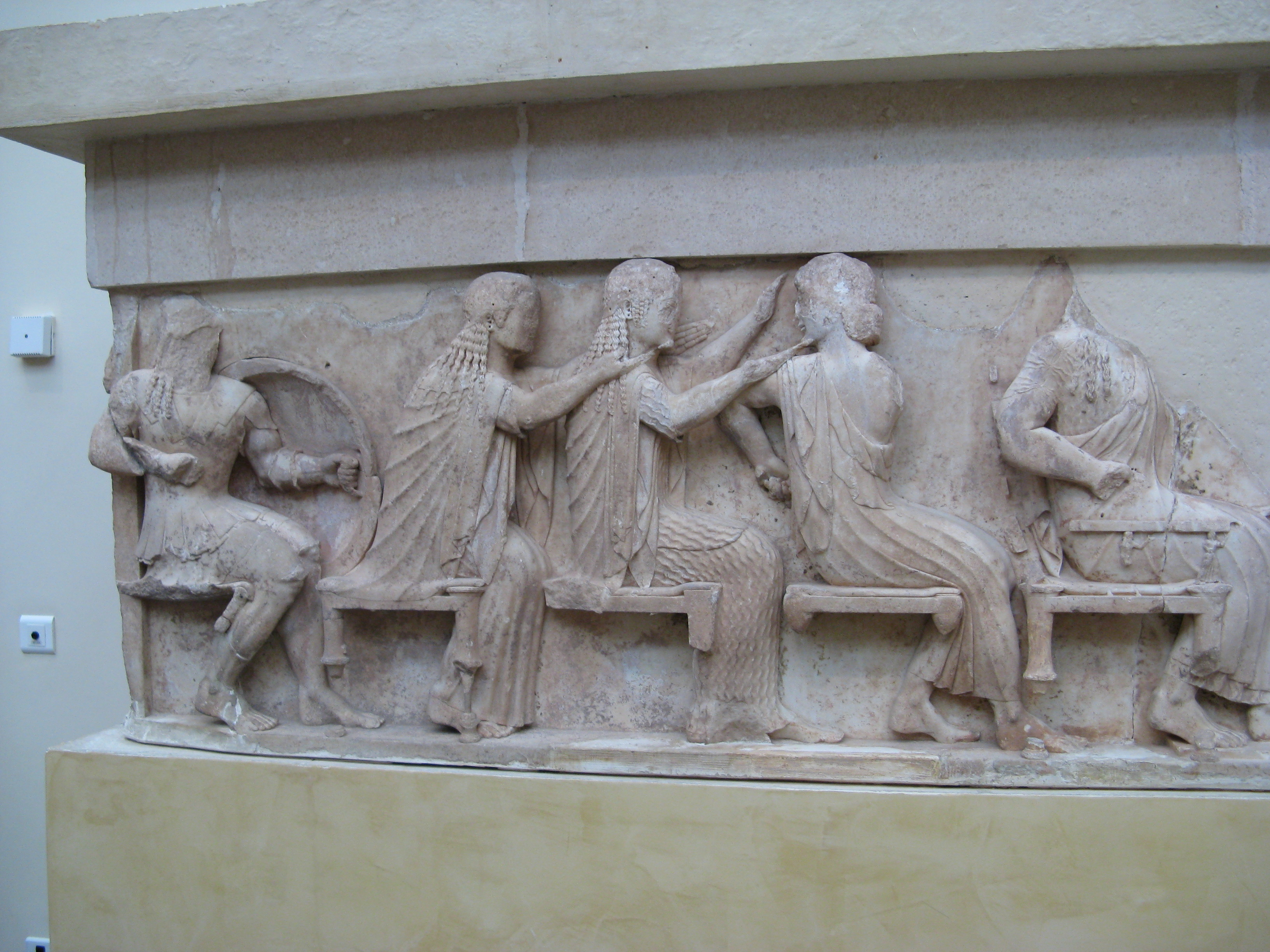 East side of the frieze of Treasury of the Siphnians. The gods are debating over the fate of Troy 525 BC.